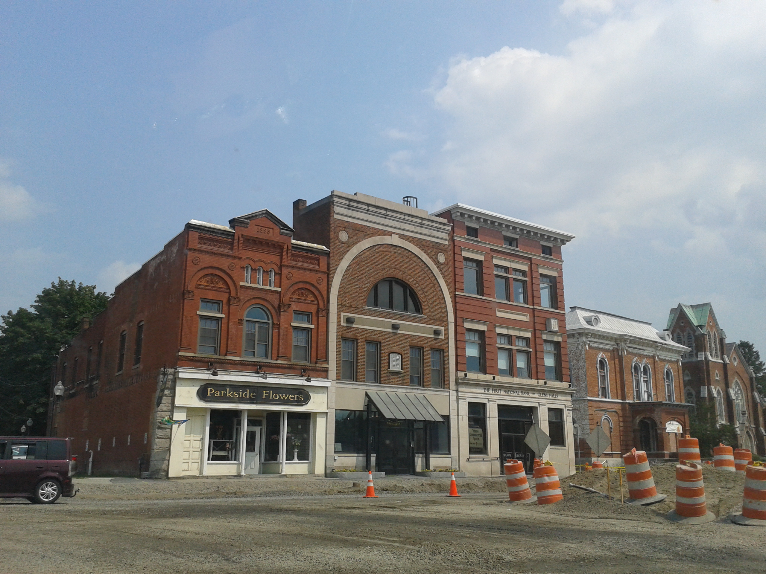 Buildings in Hudson Falls Historic District, July, 2014